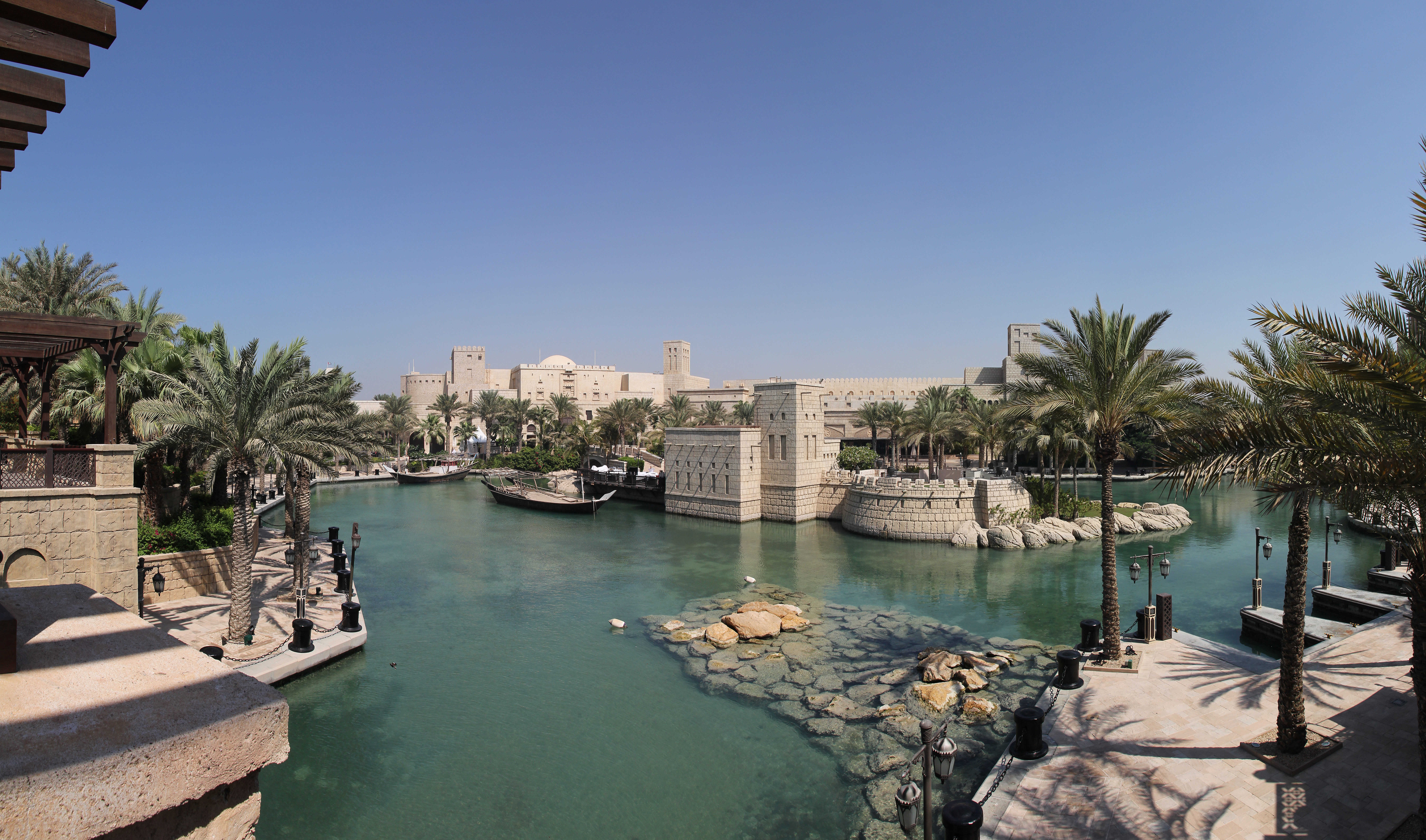 Madinat Jumeirah Waterways